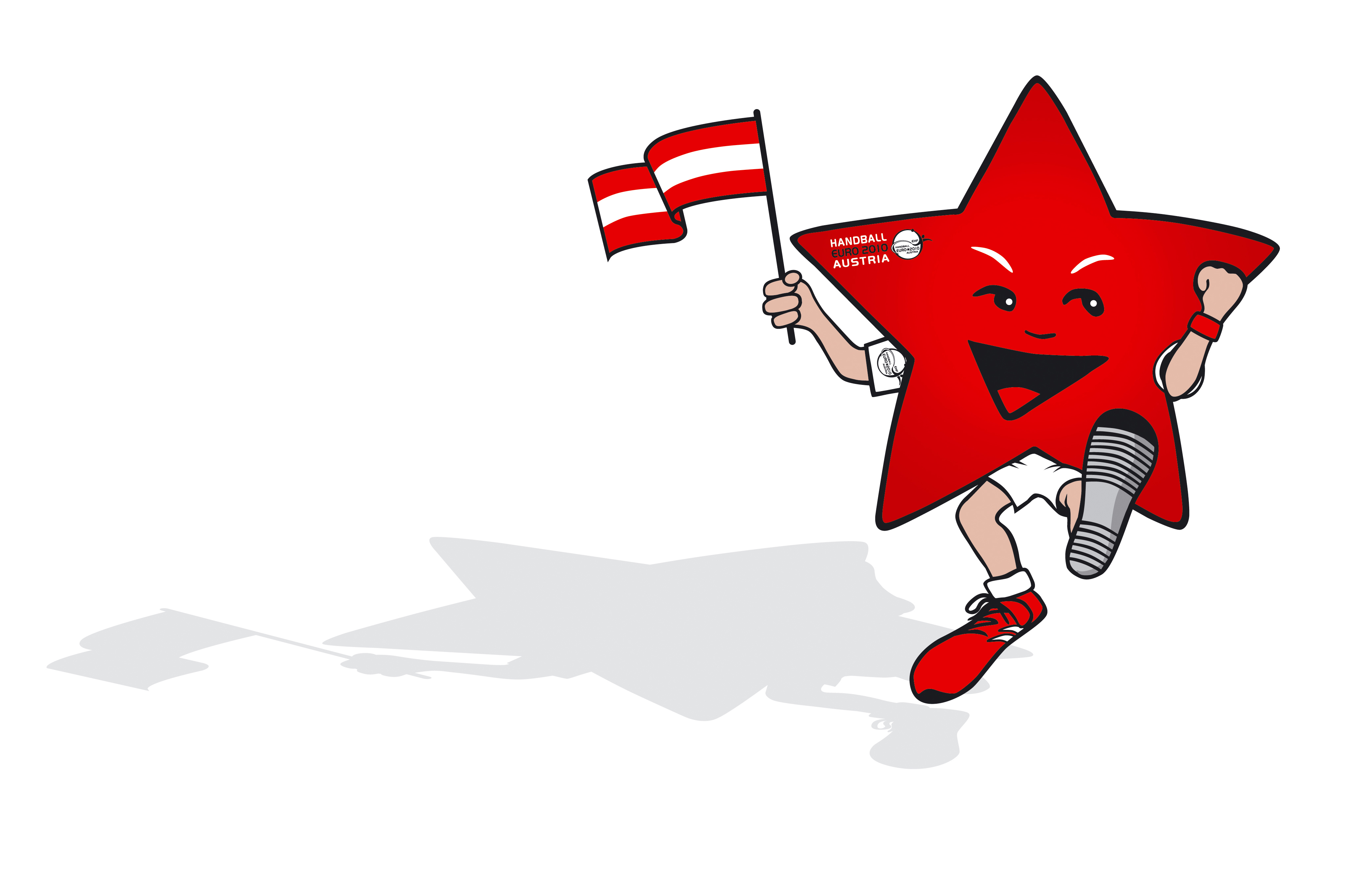 Official Mascot (#1) of the 2010 European Men's Handball Championship